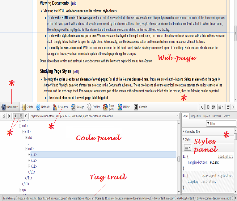 A screen-shot of the Opera browser's Dragonfly utility in support of a Wikibooks page description of its features.